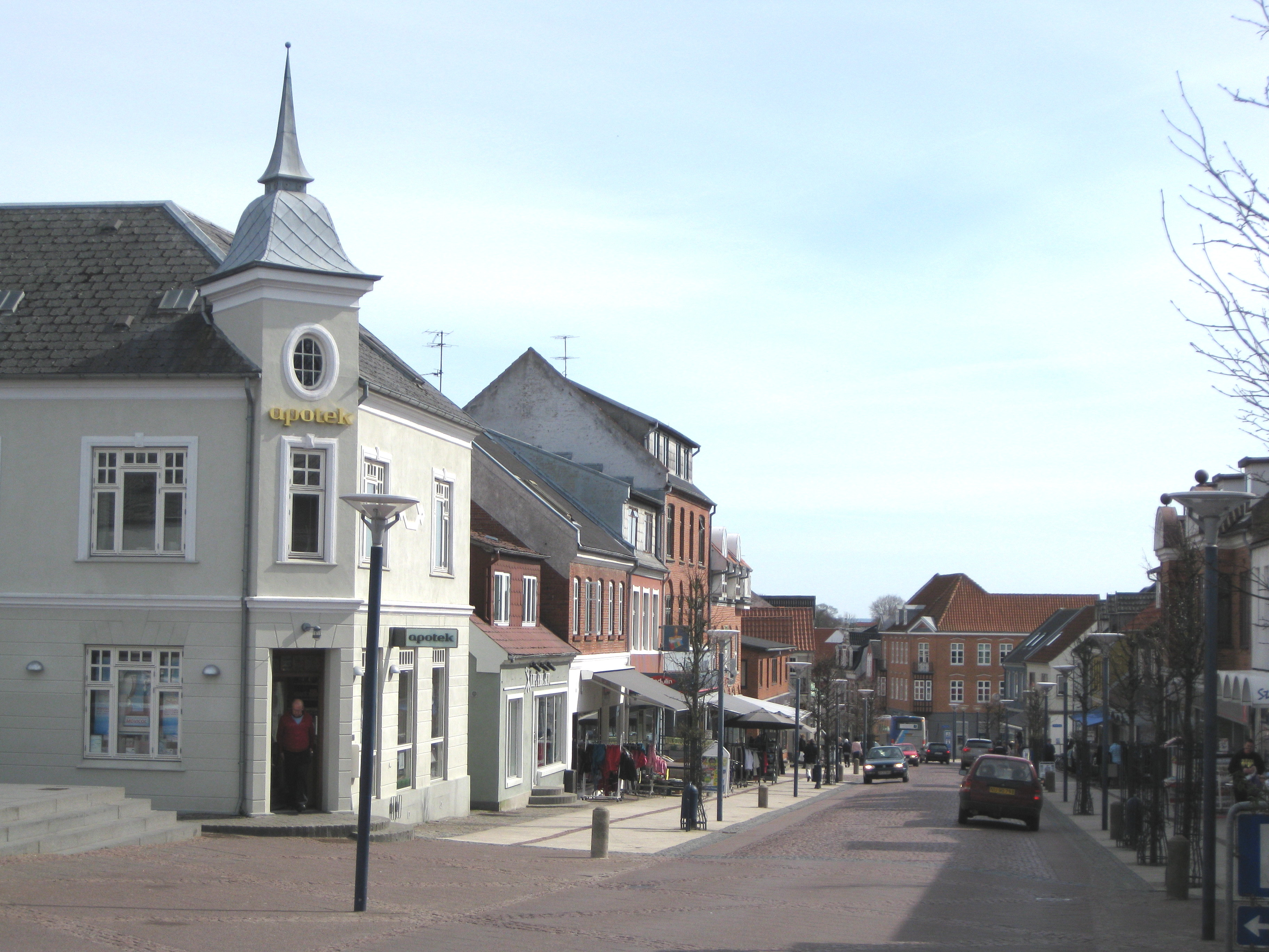 The main street of the small town "Aars". The town is located in North Jutland, Denmark.